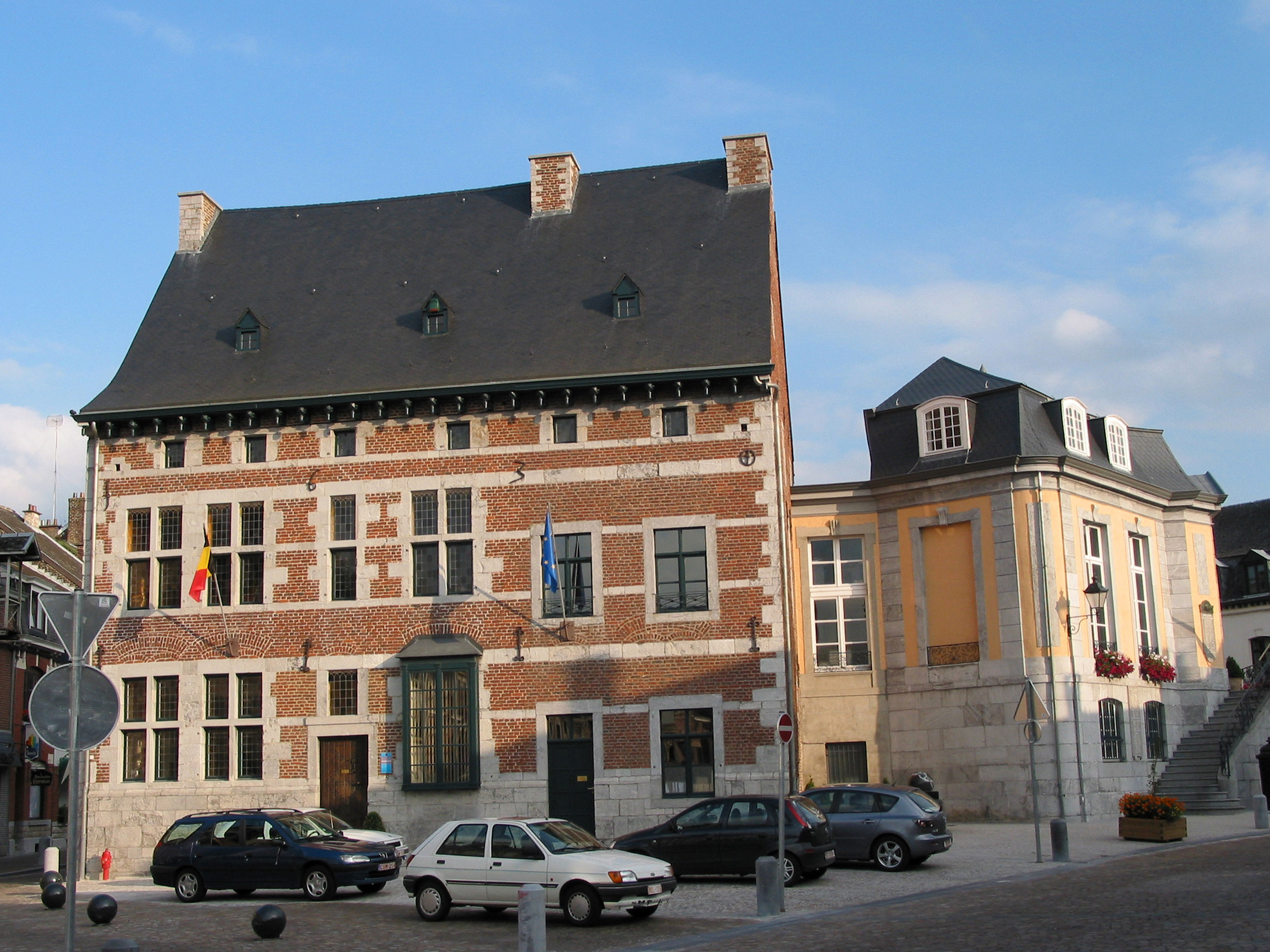 Theux (Belgium), the city hall (1630-1770) and the former house called "Maison Lebrun". The extension to the right of that house is by architect Barthélemy Digneffe.